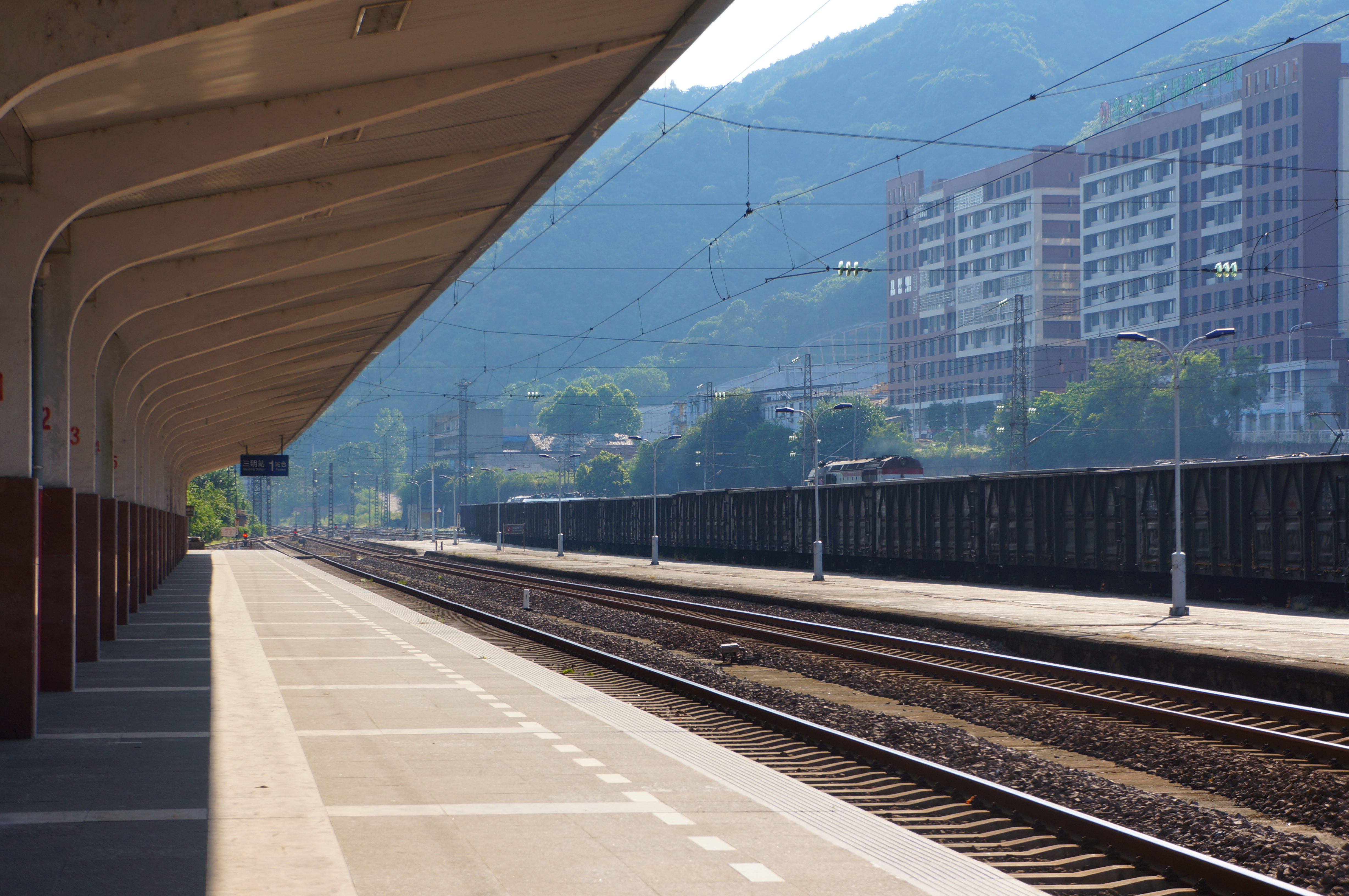 201708 Tracks at Sanming Station